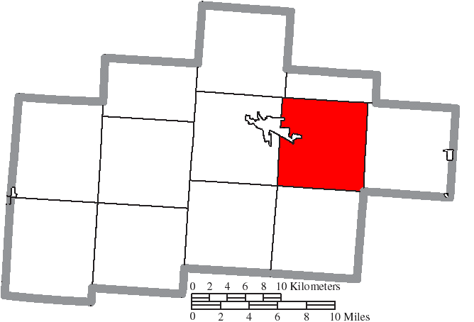 Map of the municipal and township boundaries of Hocking County, Ohio, United States, as of the 2000 census, with the location of Green Township highlighted. Township borders are shown only in unincorporated areas in order to differentiate incorporated and unincorporated areas more clearly.